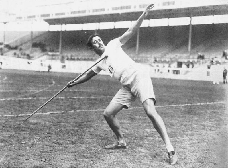 Swedish athlete Erik Lemming in the javelin competition at the Summer Olympics 1908 in London.